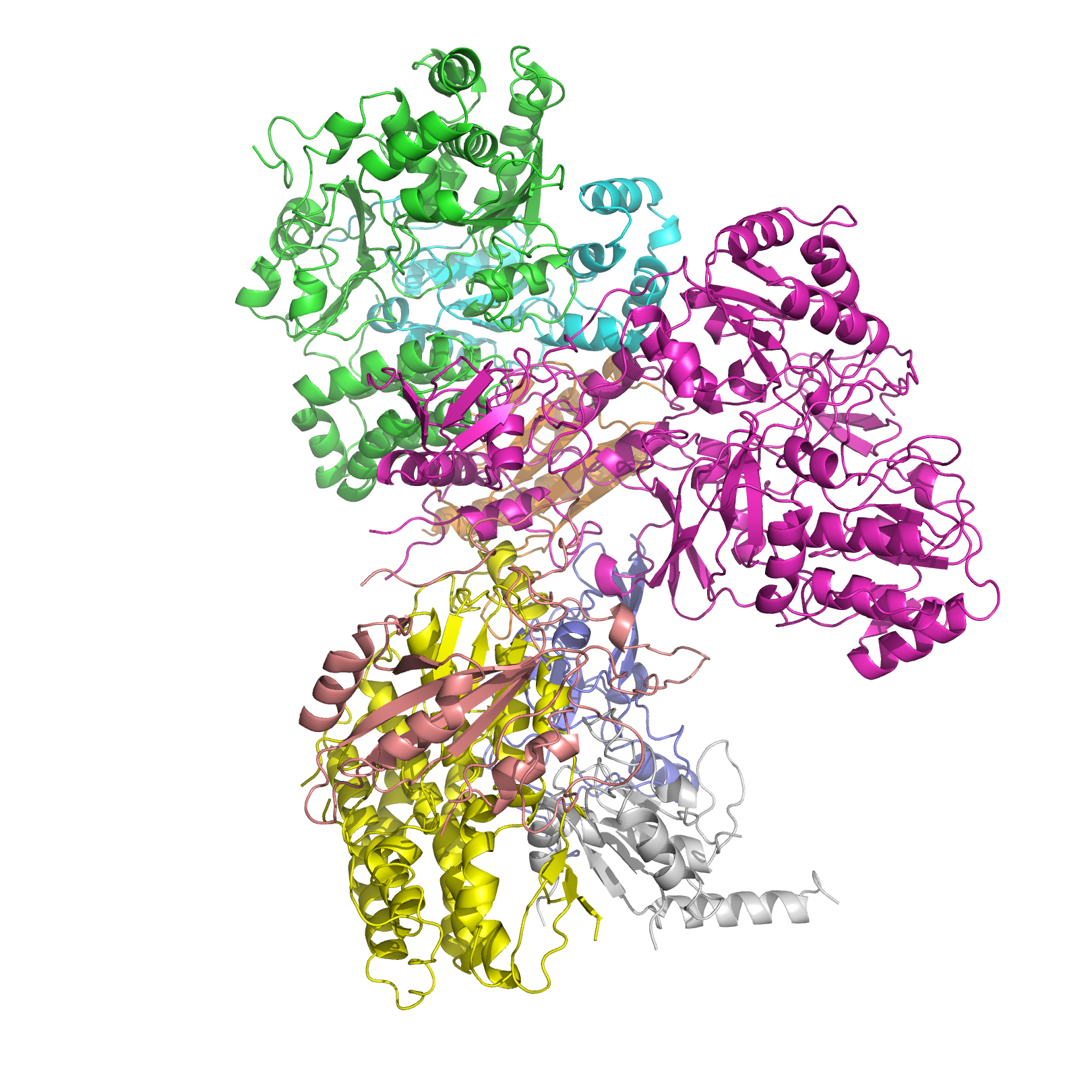 By Richard Wheeler (Zephyris) 2006. The structure of the peripheral domain of an NADH dehydrogenase (mitochondrial complex I) related protein; bacterial FMN dehygrogenase PDB: 2FUG​.